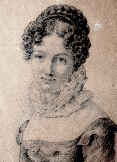 Henriette Seyler (1805–75) drawn by her sister Molly Seyler in 1822 (daughters of Hamburg banker L.E. Seyler)